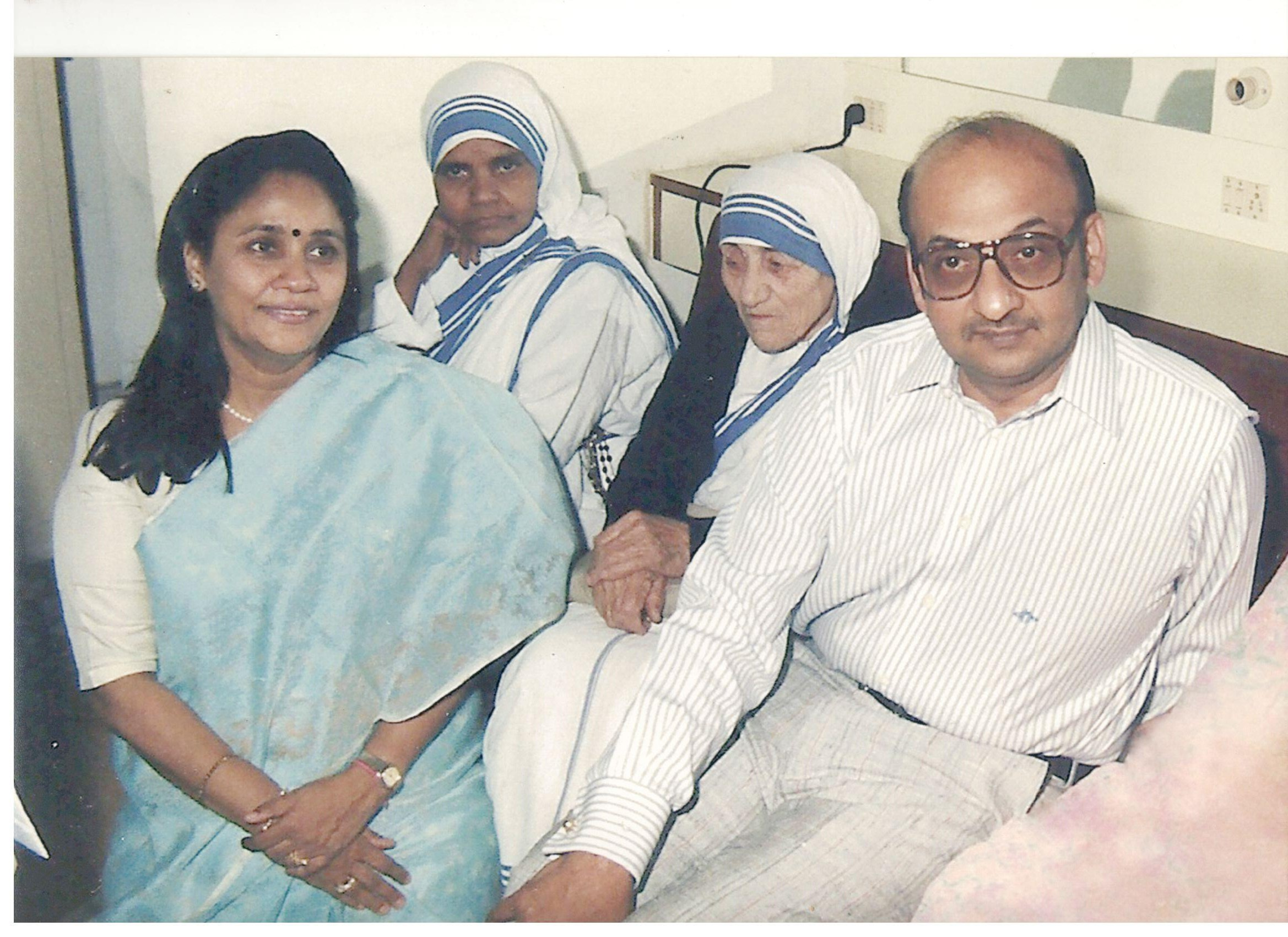 photo